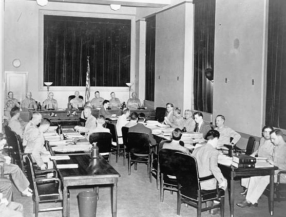 Nazi saboteur trial, Washington, D.C. The special seven-man military commission opens the third day of its proceedings in the trial of eight Nazi saboteurs in the sixth floor courtroom of the Department of Justice building. Sitting on the commission left to right are: Brigadier General John T. Lewis; Major General Lorenzo D. Casser; Major General Walter S. Grant; Major General Frank R. McCoy, president of the commission; Major General Blanton Winship; Brigadier General Guy V. Henry; Brigadier General John T. Kennedy.